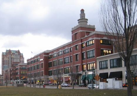 Providence Place mall with The Westin Providence at far left in the distance. Taken by user: ctman987 with permission.